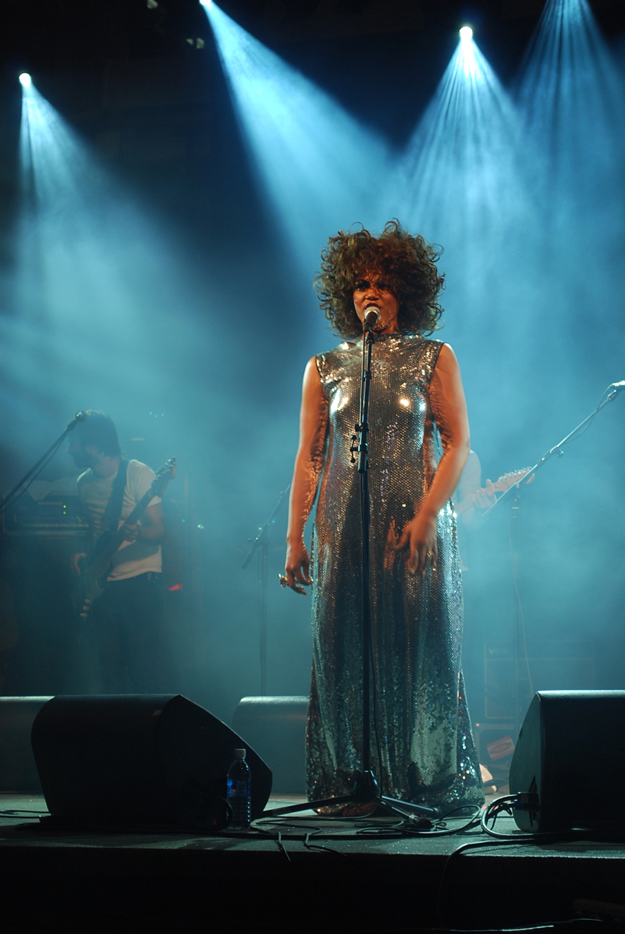 Measha's "No Heaven" Solo #3